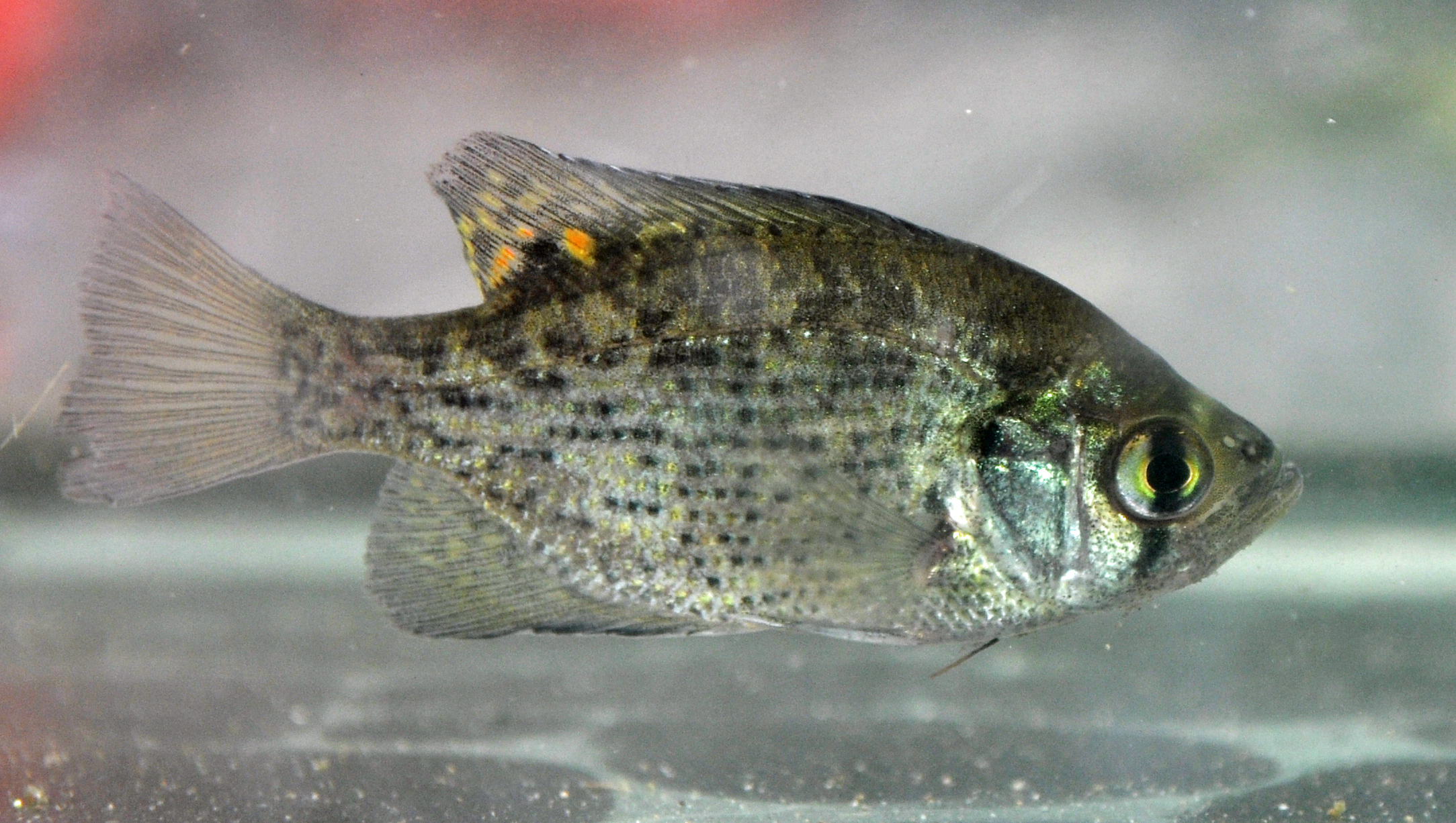 A flier (Centrarchus macropterus) from a tributary of the Kaskaskia River in Illinois.